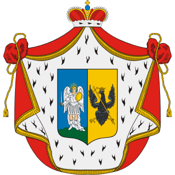 Coat of arms of the Repnin princely family, as adapted by the Repnin-Volkonsky line